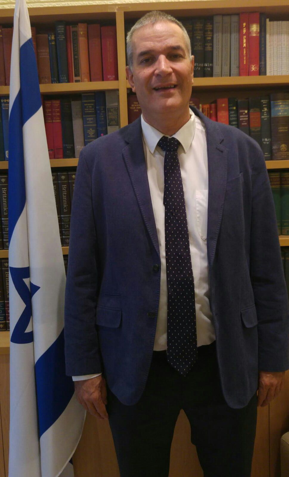 Rafael Harpaz, 2017